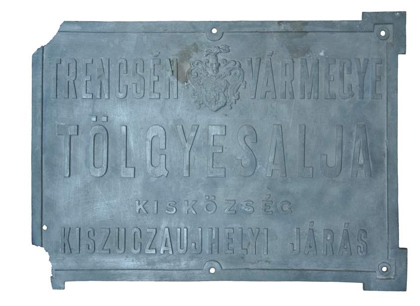 Historical sign of the municipality of Zádubnie (now part of Žilina city) from the period cca. 1900-1914